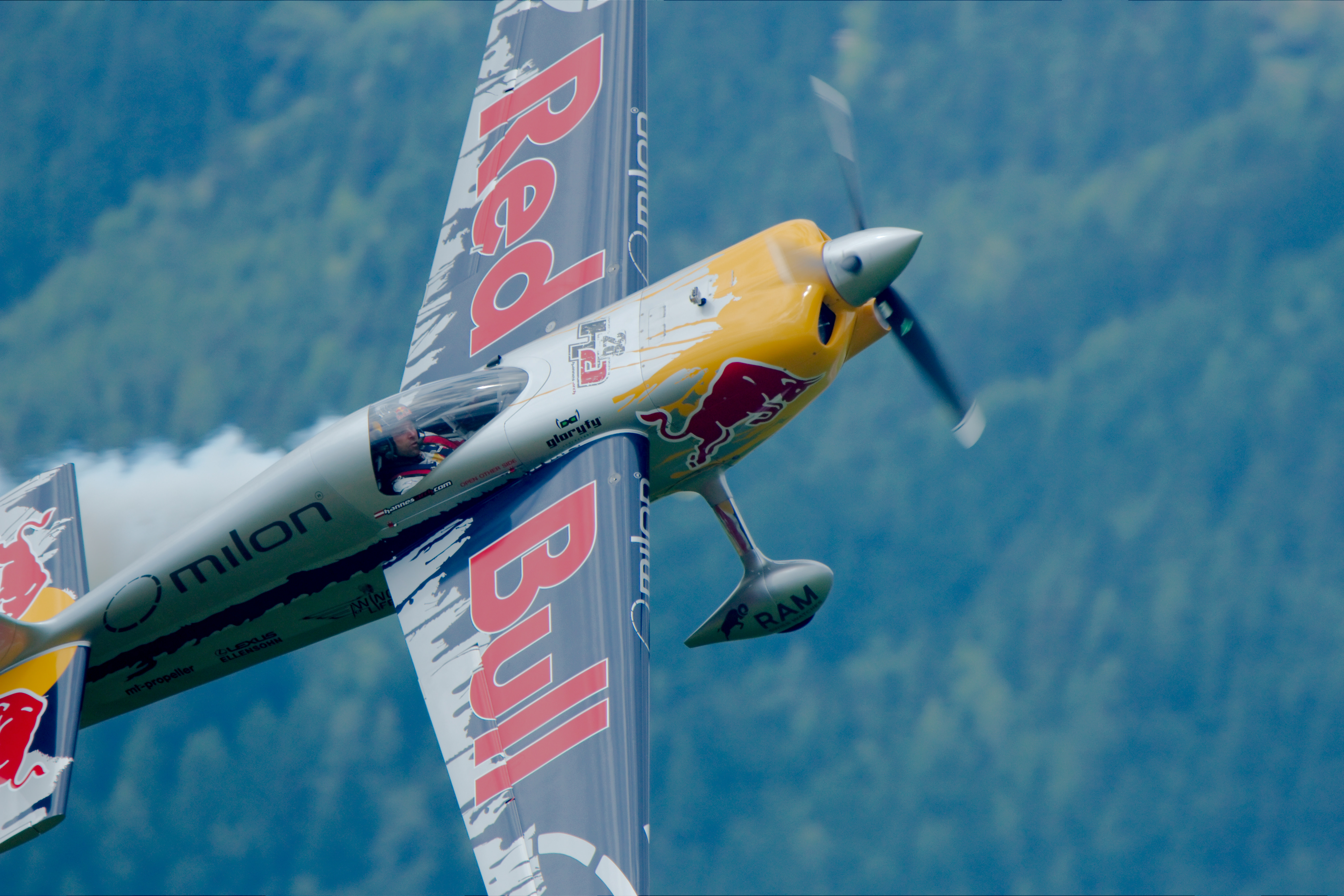 Hannes Arch with Zivko Edge 540 at Airpower 2011